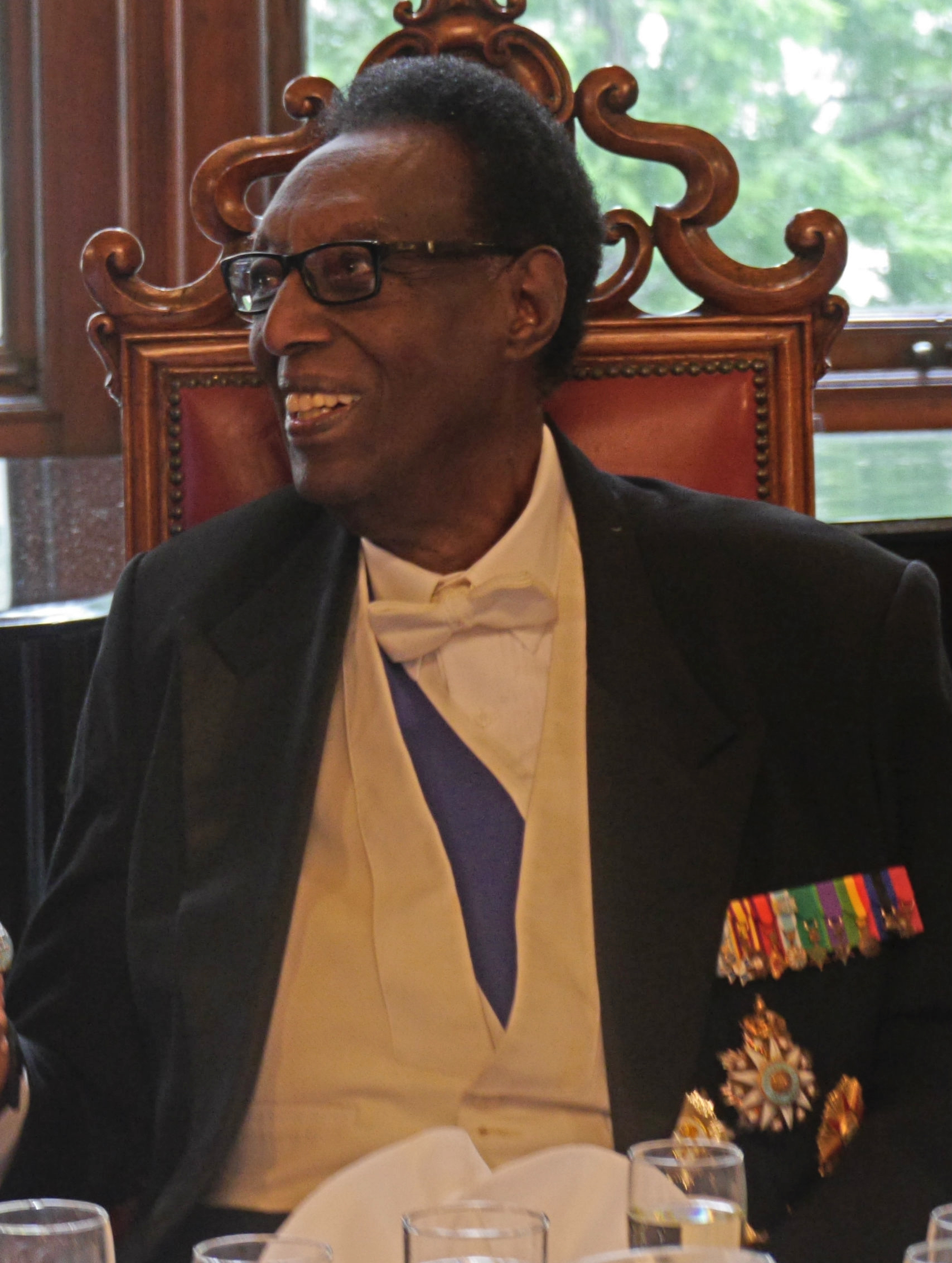 Kigeli V Ndahindurwa at the National Liberal Club in 2016. Photograph taken by Shayan Barjesteh van Waalwijk van Doorn, who documented the occasion for his friend Maurice Robson.